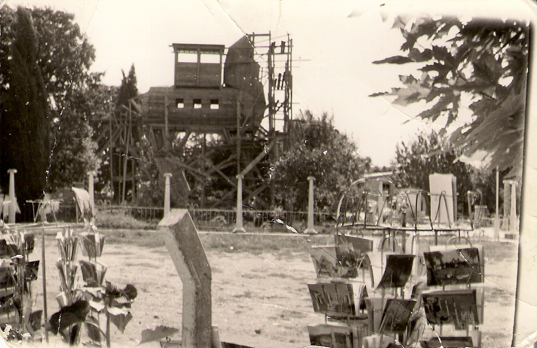 Contruction process of the imaginary wooden Trojan Horse in Hisarlık, Turkey.